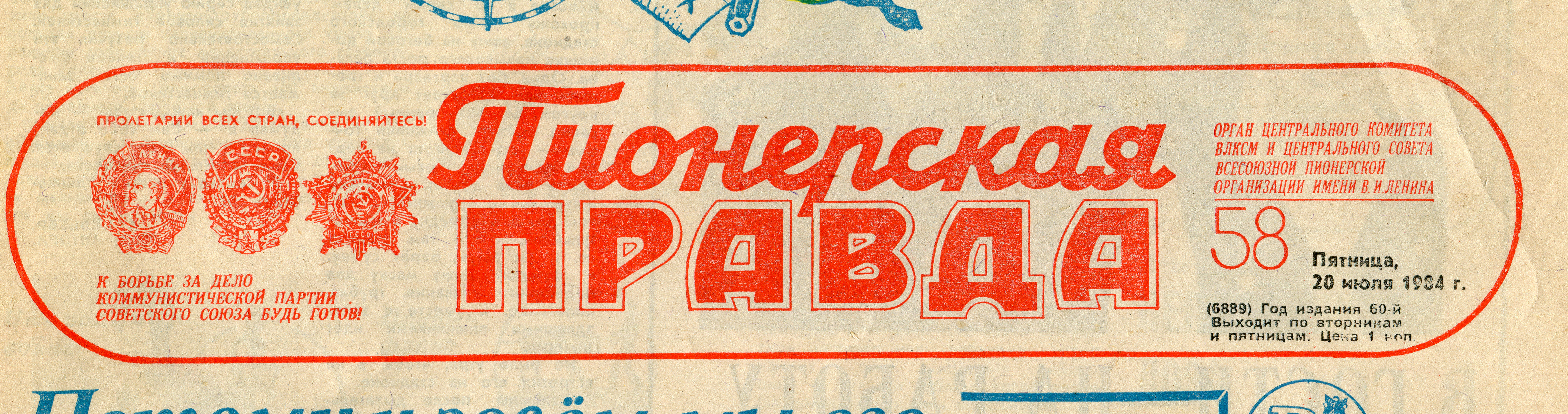 USSR. Newspapers Pionerskaya Pravda. The organ of the Central Committee of the Komsomol and the Central Council of the All-Union Pioneer Organization named after V.I. Lenin. July 20, 1984.